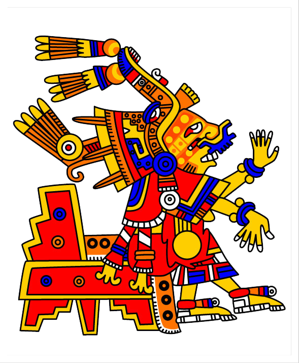 Xochiquetzal